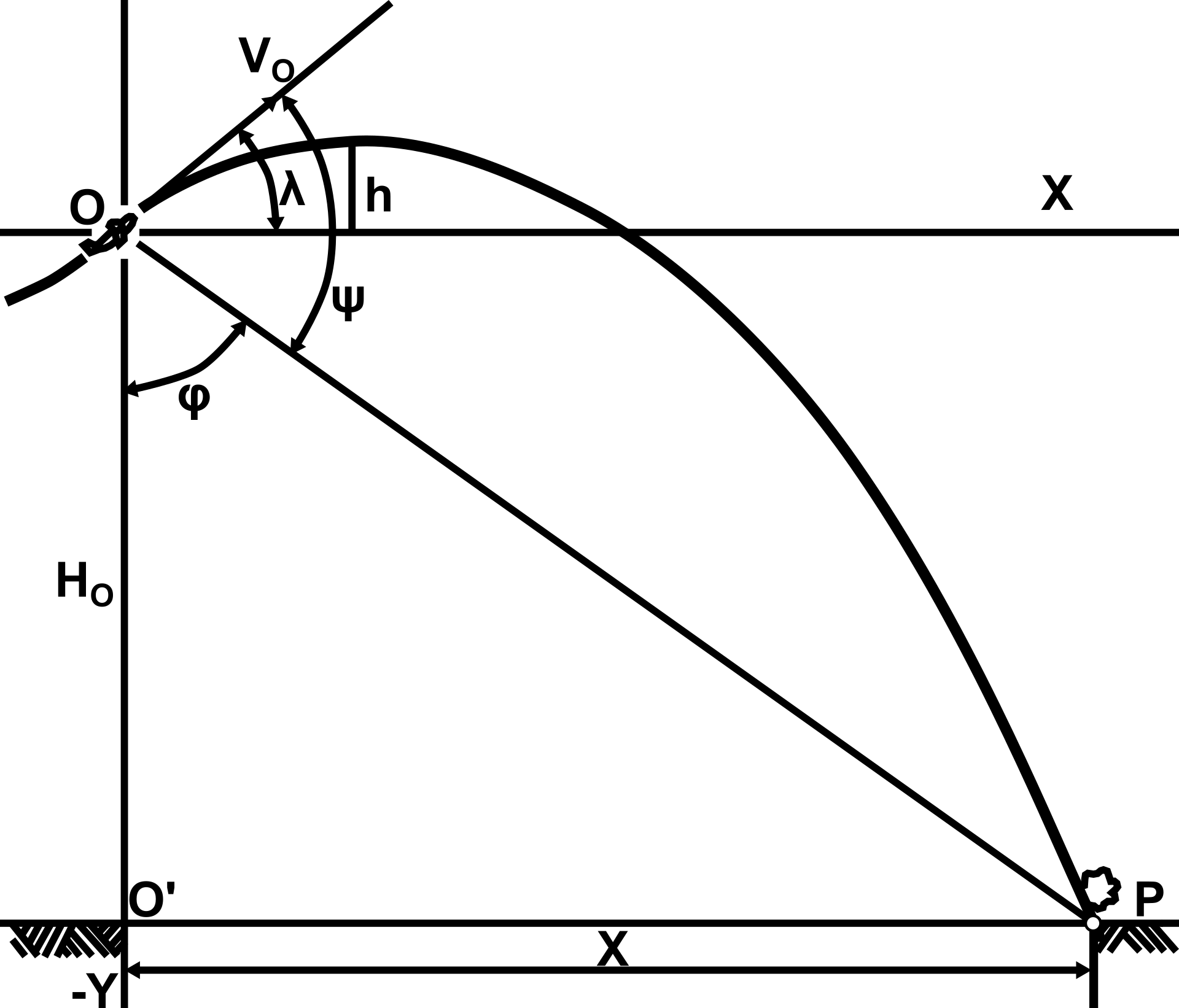 The trajectory of the bomb in the bombing prance